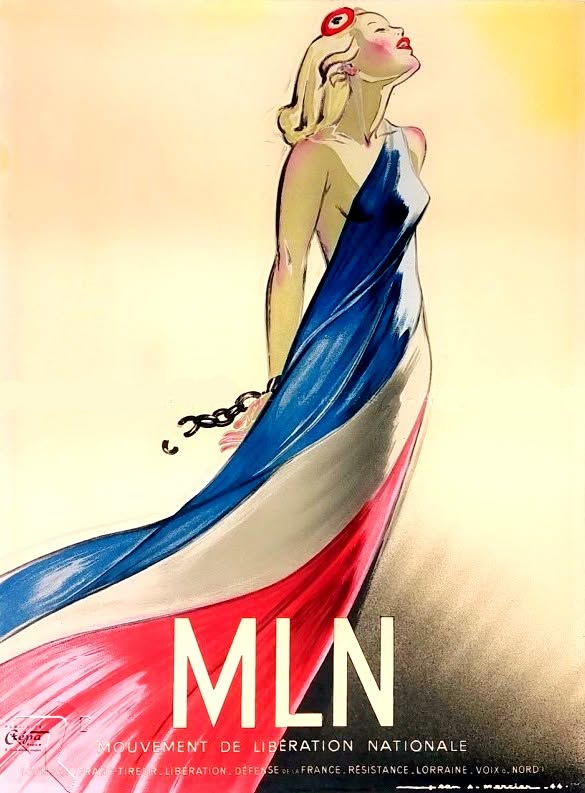 French Resistance Group Poster Posted in Paris During the Liberation of the City (National Archives)